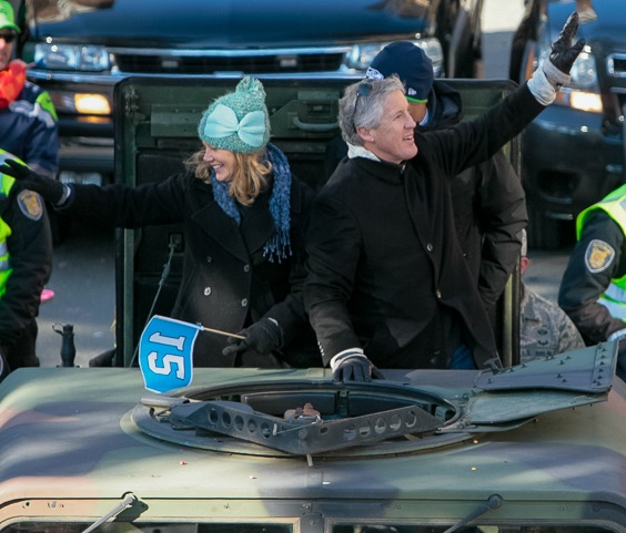 Pete Carroll in the Super Bowl victory parade in Seattle, 02.05.2014